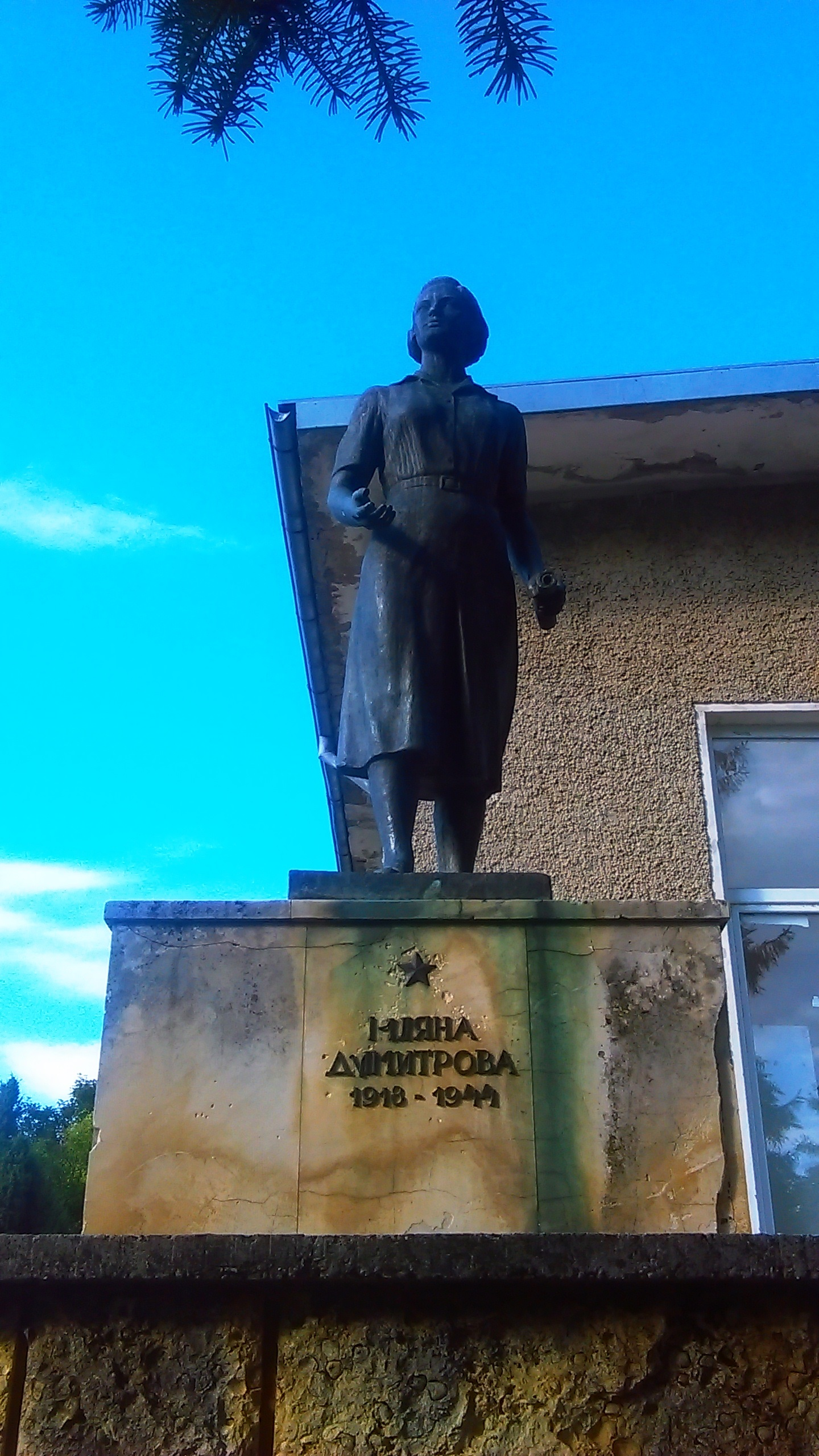 A sculpture of Lilyana Dimitrova in Studenetz, Razgrad district, Bulgaria